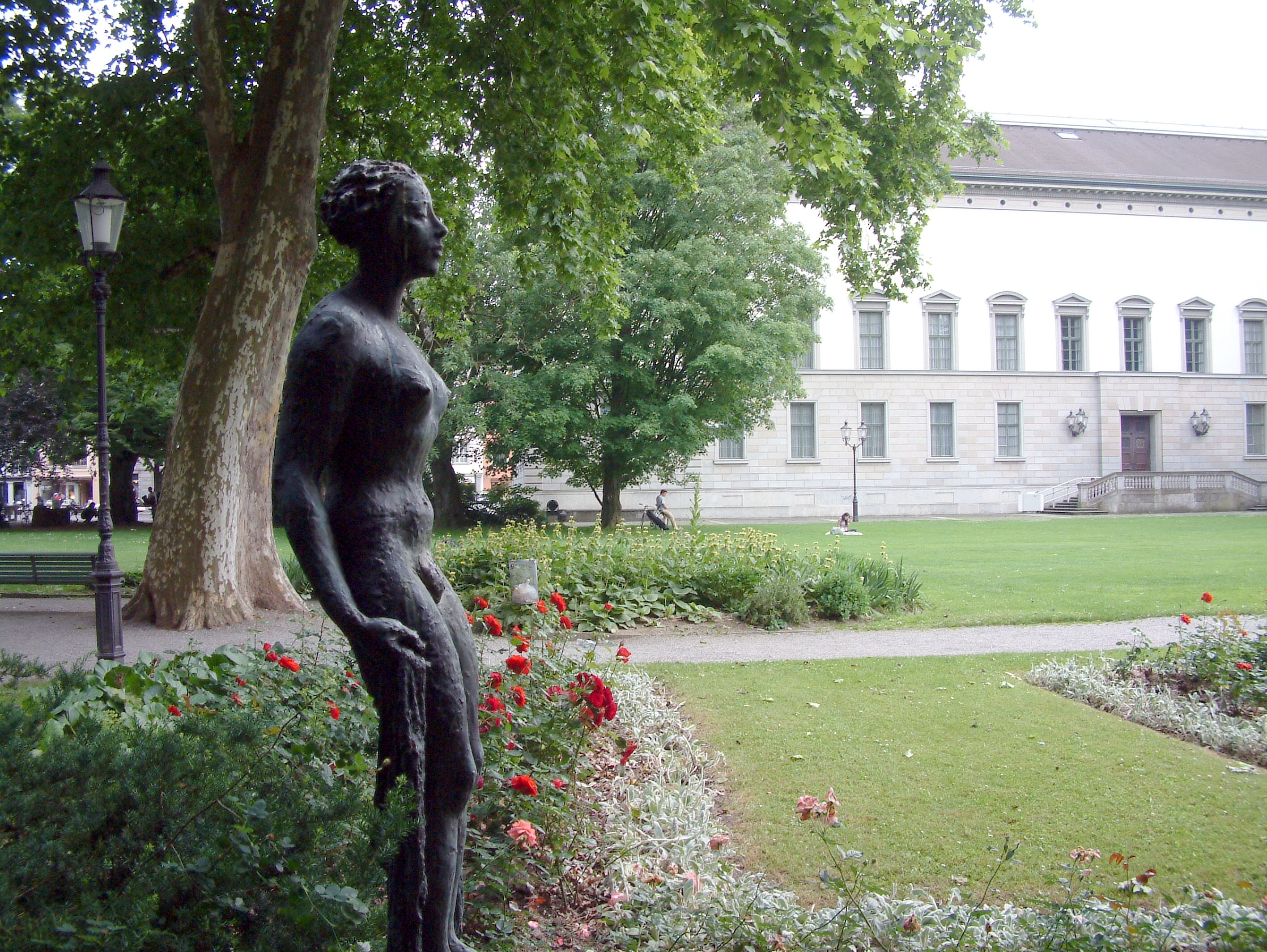 City Winterthur with Museum Oskar Reinhart